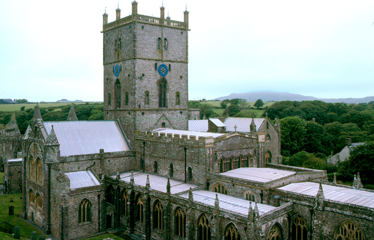 Cathedral of St David's in the County of Pembrokeshire in South Wales/UK